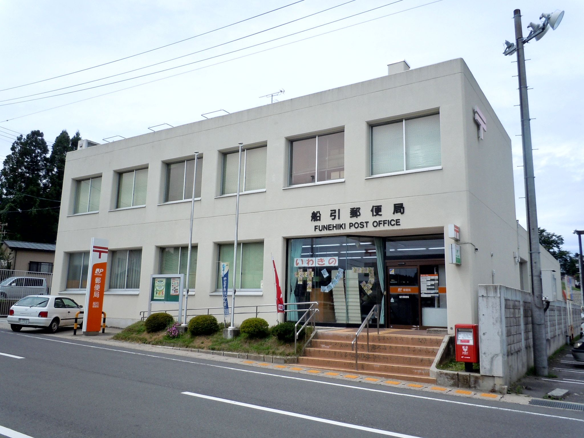 Funehiki post office, located in Funehiki-machi, Tamura, Fukushima Prefecture, Japan.